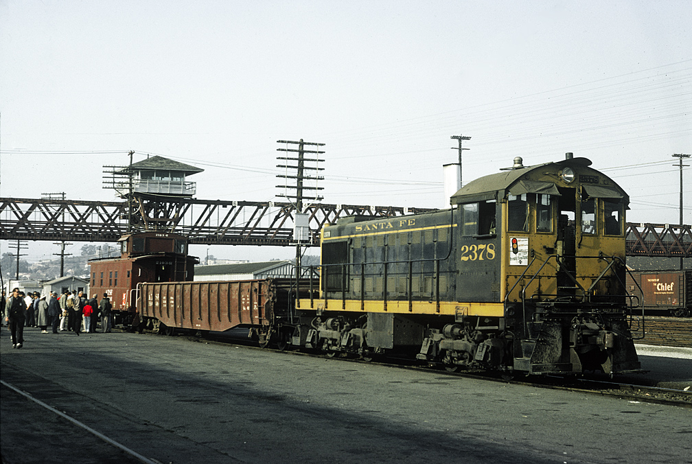 Central Coast Railway Cub "Richmond Yard Goat" excursion on the Richmond Belt October 1966